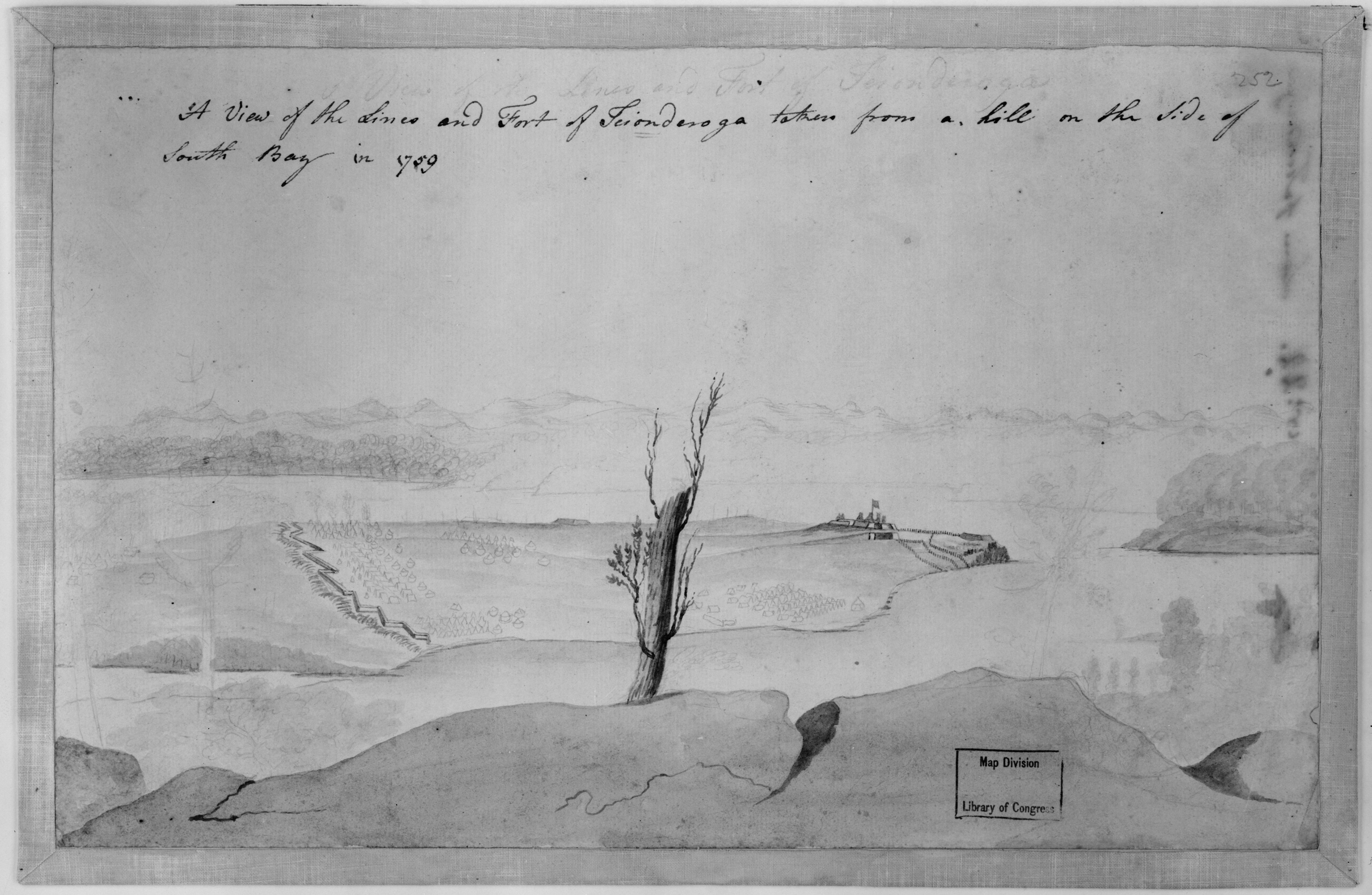 A view of the lines and Fort of Tcionderoga [e.g. Ticonderoga] taken from a hill on the side of South Bay in 1759. Topographical drawing shows Fort Ticonderoga, drawn from the South Bay of Lake Champlain in New York state during the French and Indian War. The tents marking military encampment are penciled in. REPOSITORY: Library of Congress Prints and Photographs Division Washington, D.C. 20540 USA.